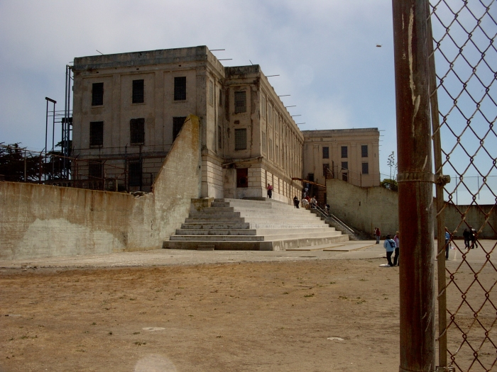 Courtyard at Alcatraz